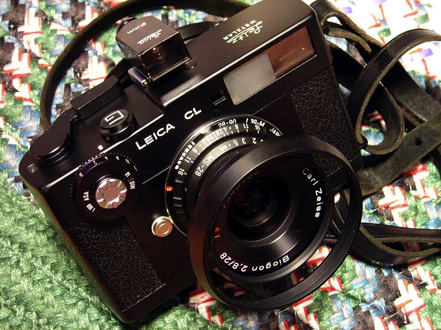 Leica CL with Biogon 28mm